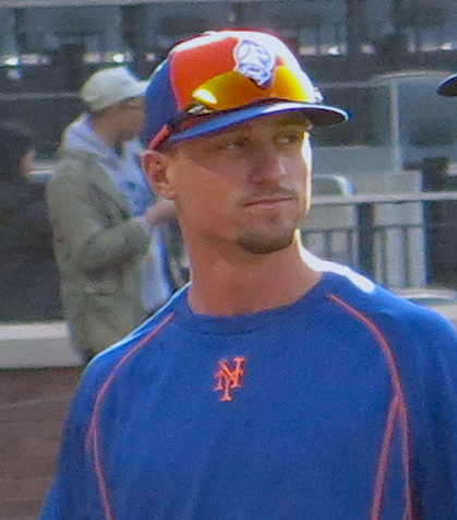 Logan Verrett with the New York Mets, April 27, 2016.